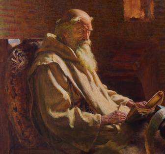 "The Venerable Bede Translates John" by James Doyle Penrose (1862-1932) Inset from "The last chapter (Bede)", exhibited at the Royal Academy (1902) Details